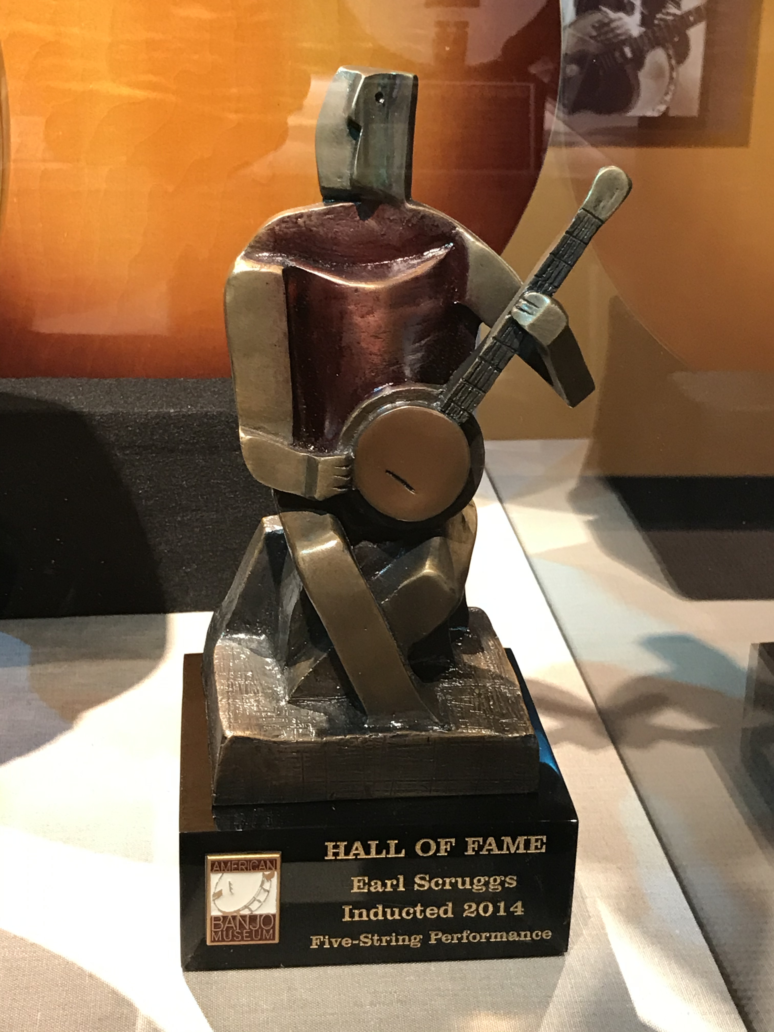 2014 American Banjo Museum Hall of Fame Award for Earl Scruggs, on display at the American Banjo Museum in Oklahoma City.